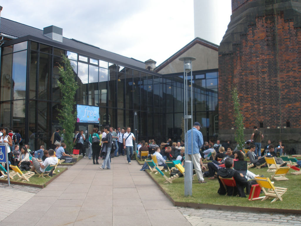 the theme "free" hangs over the doorway, as everyone hangs outside for a break.